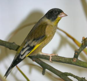 Black-headed Greenfinch Chloris ambigua, captive